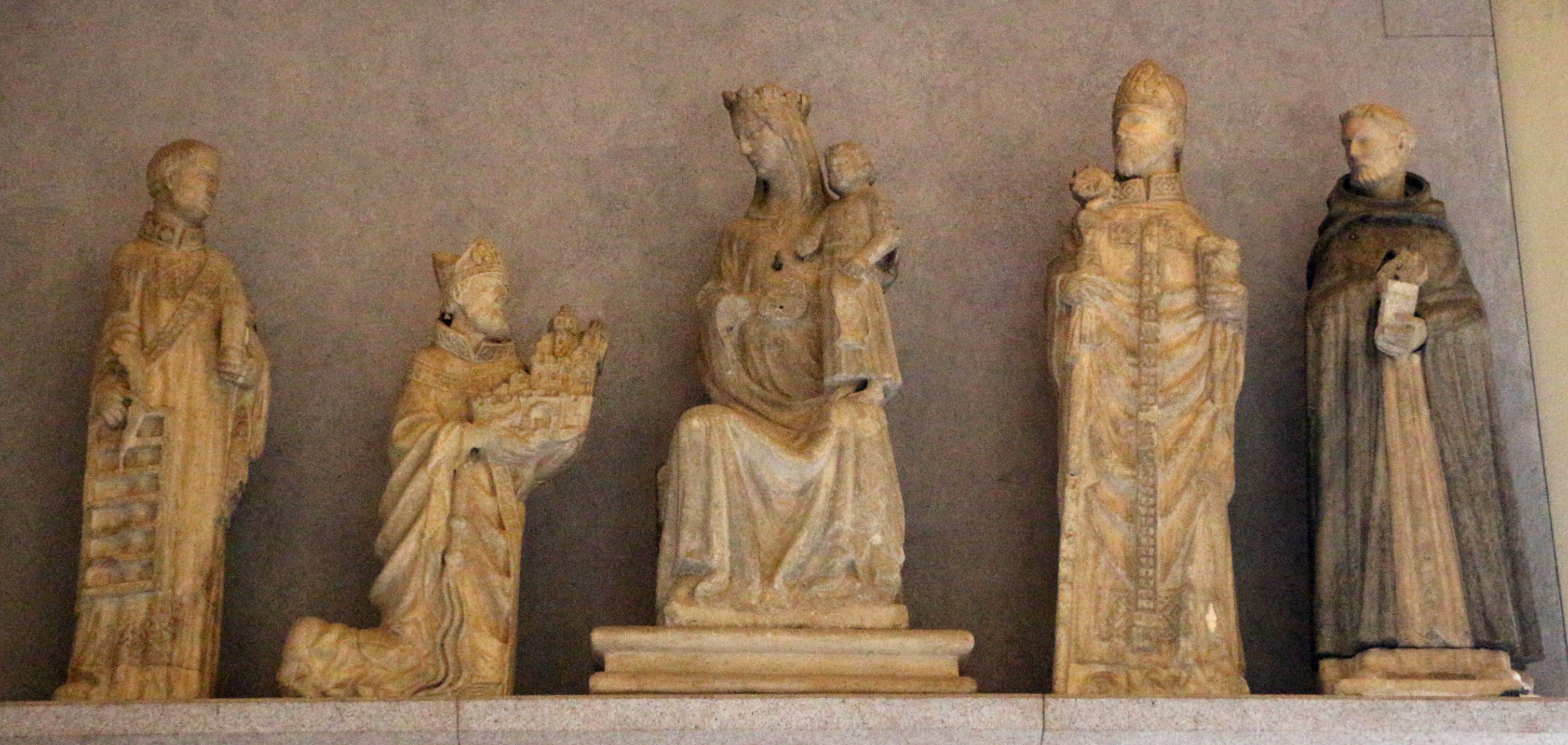 Museo d'arte antica (Milan) - 14th-century sculptures